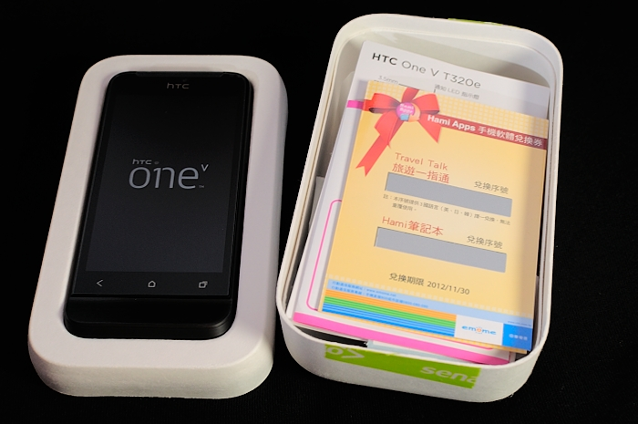 HTC One V T320e with Chunghwa Telecom Hami apps coupon. Sold from Senao International.